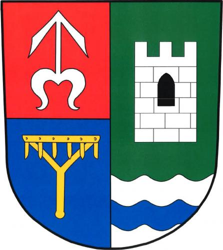 Coat of arms of Senohraby, Praha-východ District